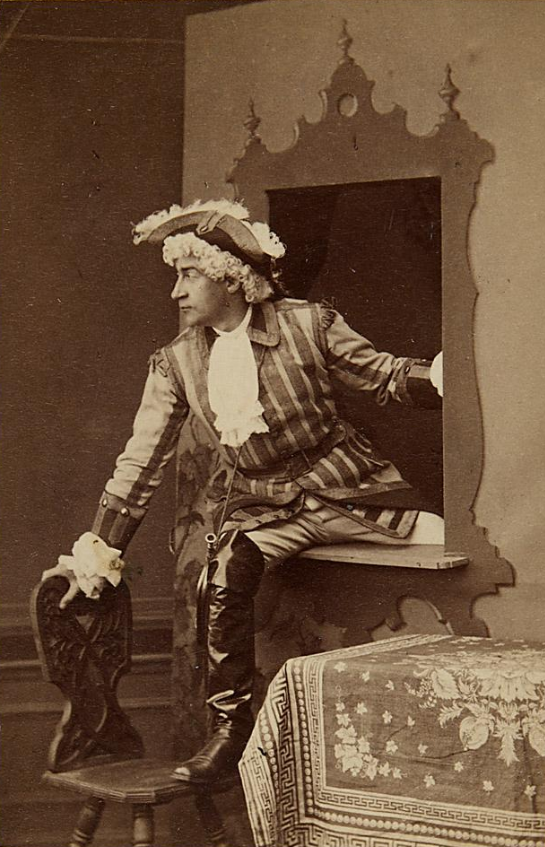 Austrian actor Karl Blasel as Jolicoeur in Jacques Offenbach's operetta Fleurette, oder Näherin und Trompeter, Carltheater 1872, photograph by Julius Gertinger